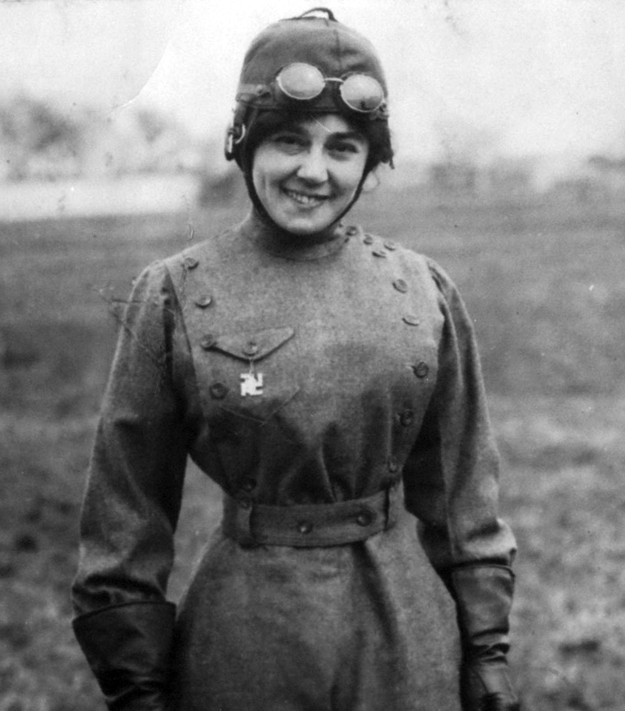 Pioneering American aviatrix Matilde E. Moisant (September 13, 1878 – February 5, 1964) in 1912. She was the second woman in the United States to earn a pilot's license.